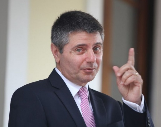 Gibraltar education minister Gilbert Licudi speaks about the university idea at the State House, Victoria, Seychelles.